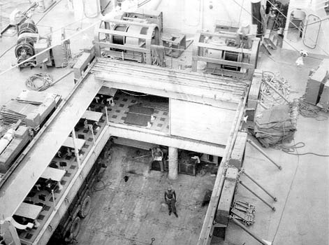 The cargo hold of USS Rankin (AKA-103), 1963.